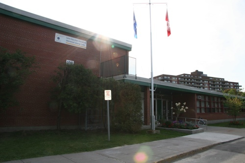 Marcus Tabachnick Pavillion